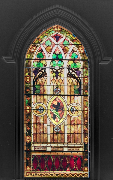 Küner window in St. Matthew's Lutheran Church, San Francisco